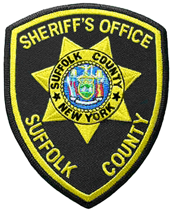 Image is similar if not identical to the shoulder patch of the Suffolk County Sheriff's Office, New York. Made with Photoshop.